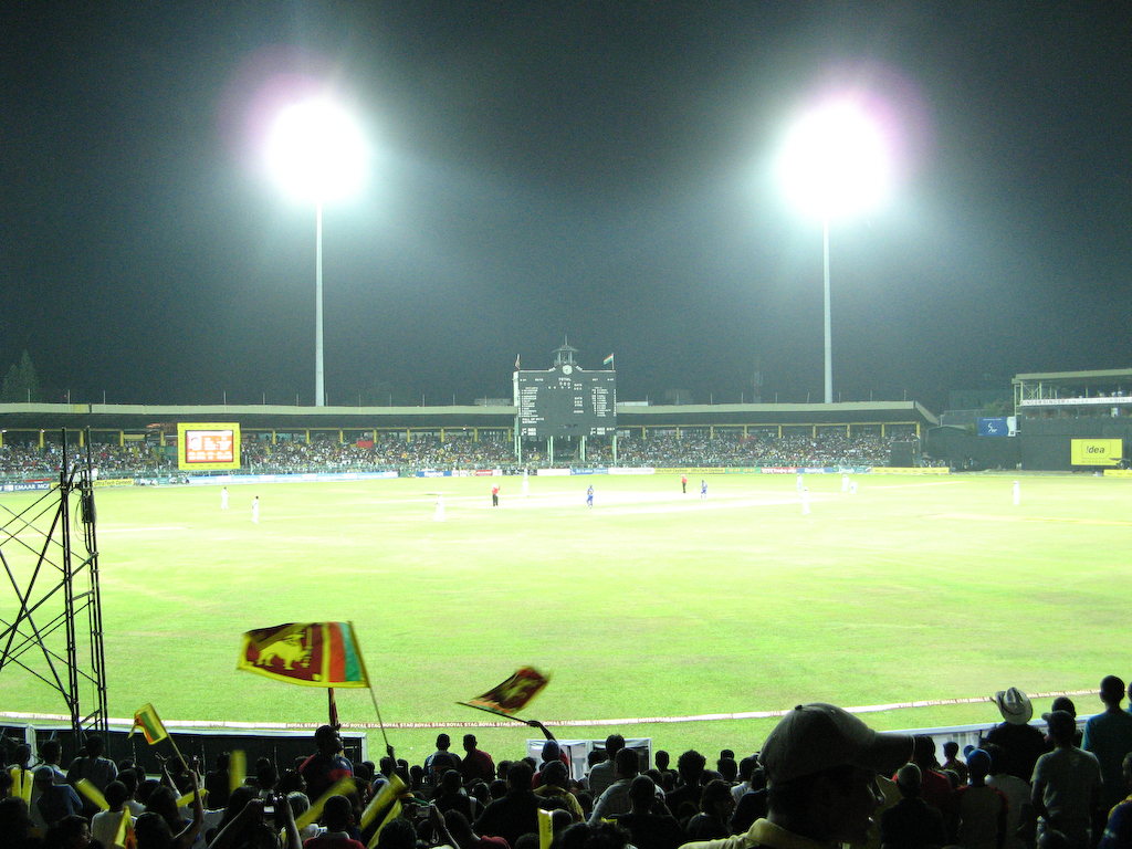 A One Day International (ODI) cricket match between Sri Lanka v India at the R. Premadasa Stadium in Colombo, Sri Lanka.